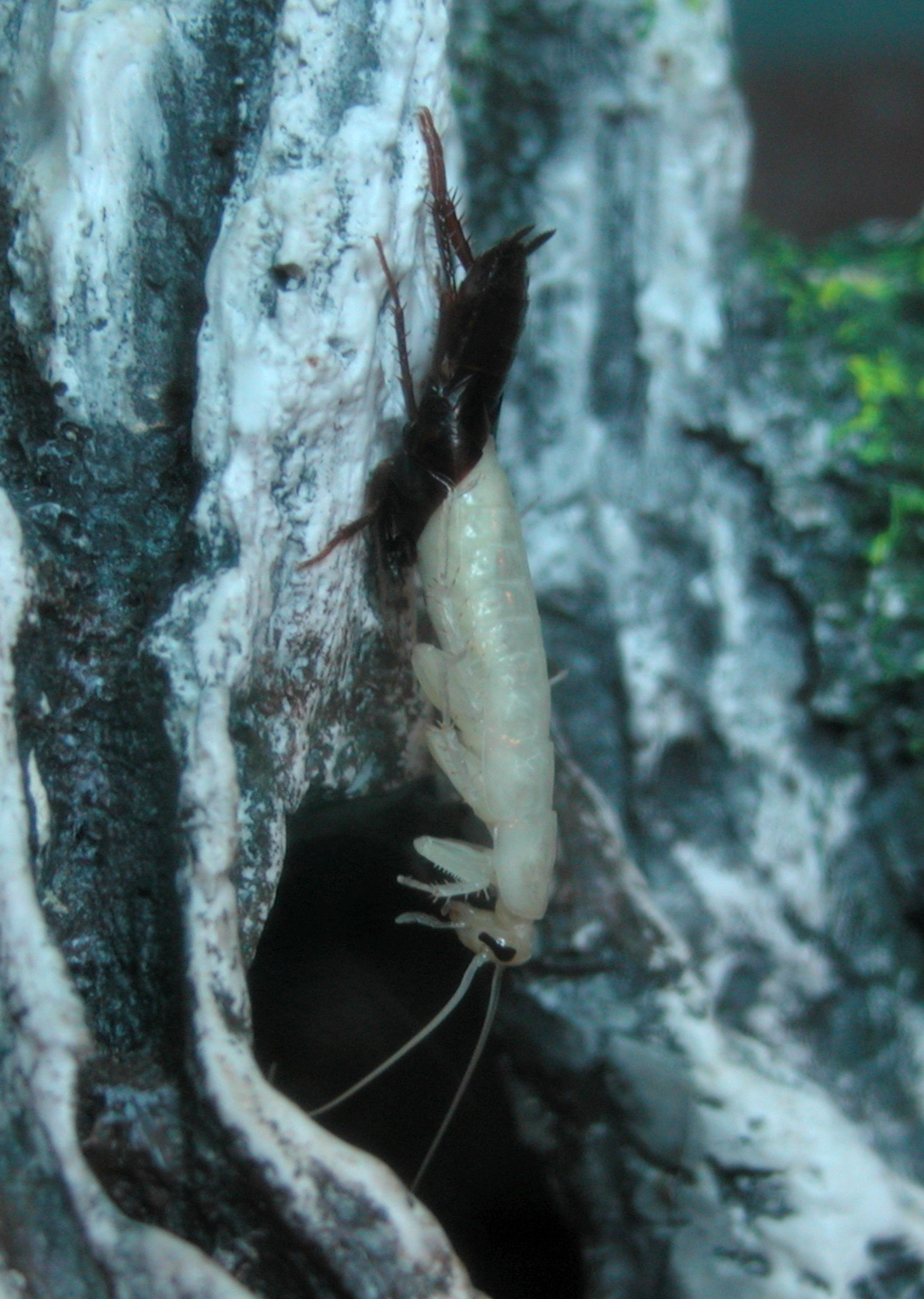 Captive Oriental cockroach (Blatta orientalis) moulting inside a terrarium.